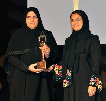 Raja Al Gurg, award